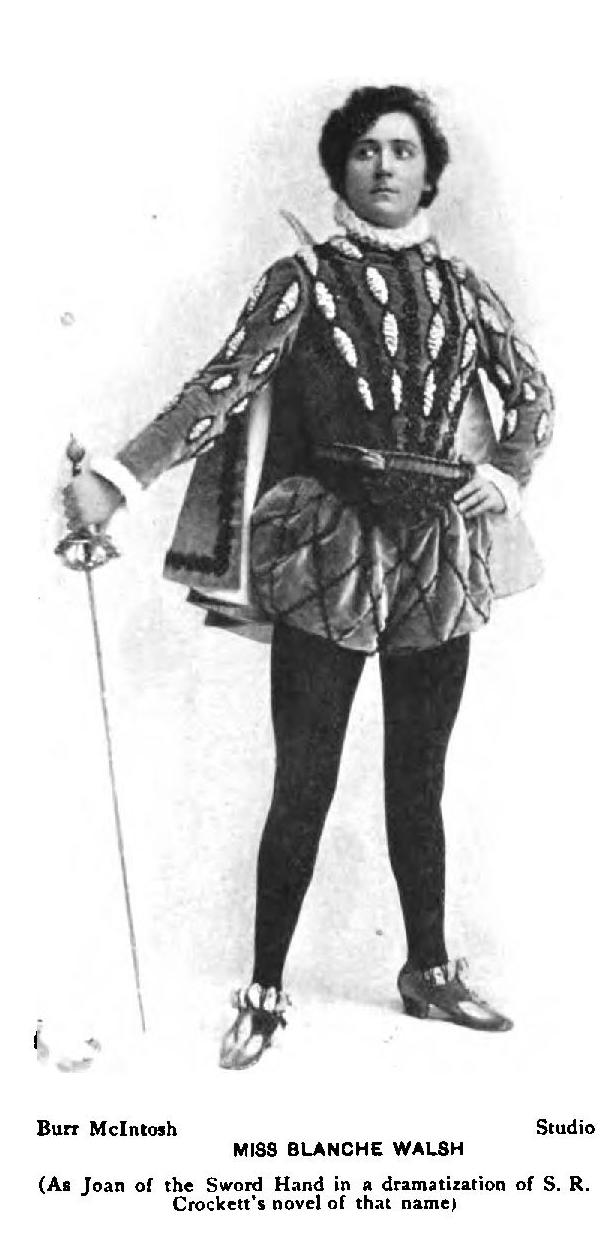 Blanche Walsh as Joan of the Sword Hand in a dramatization of S.R. Crockett's novel of that name.